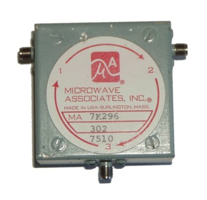 1 GHz ferrite circulator discarded by a radar-repair company